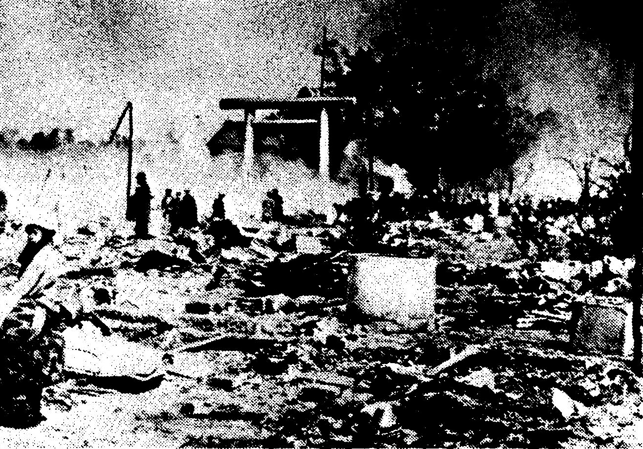 This is the great fire of Ishioka in 1929 at Ishioka, Ibaraki, Japan.